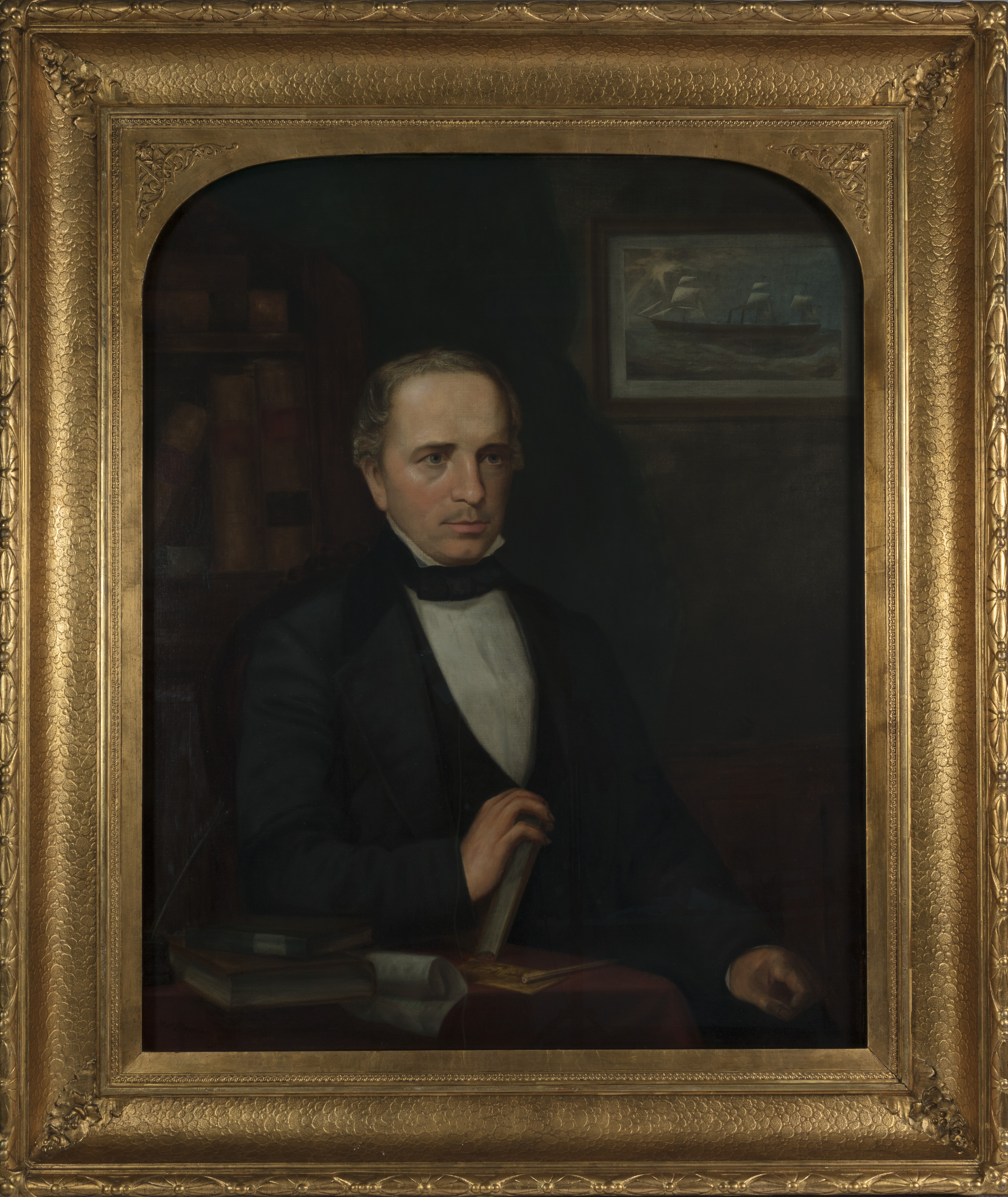 Oil on canvas portrait of Bryan Mullanphy (1809-1851) by Mat Hastings. Mullanphy, son of Irish immigrants, founded the philanthropic Travelers' Aid in St. Louis. Title: Portrait of Bryan Mullanphy